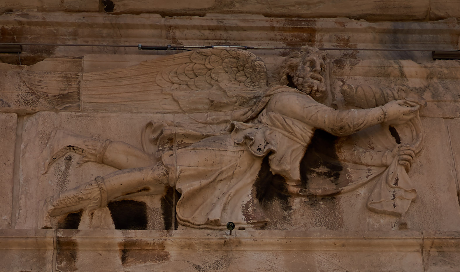 The relief panels on the frieze of the Tower of the Winds (Horologion of Andronikos Kyrrhestes) in the Roman Agora of Athens. In this panel the wind god Boreas.